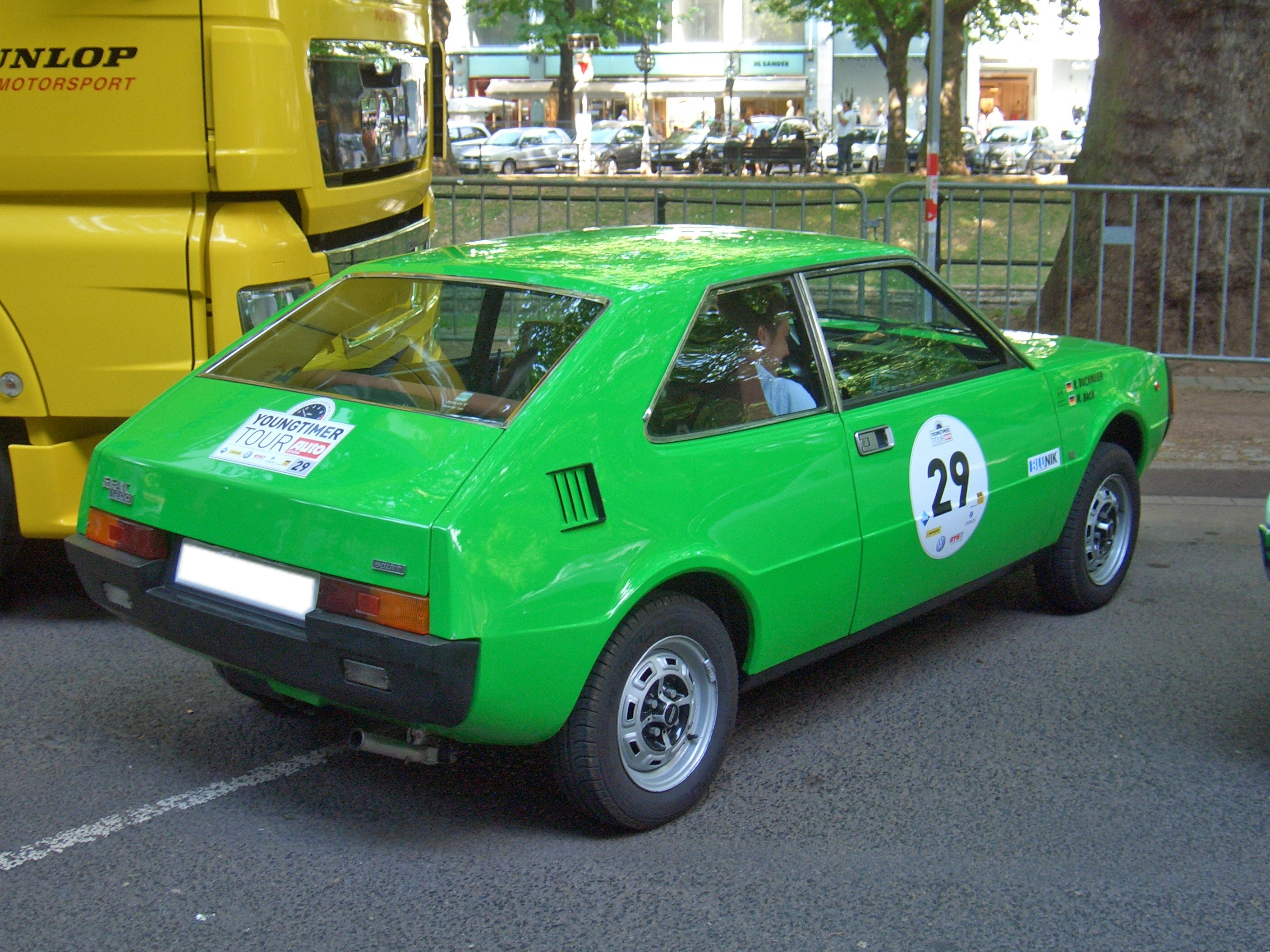 Seat 1200 Sport Coupe, seen at AUTO ZEITUNG Youngtimer Tour 2011, finish at Königsallee, Düsseldorf